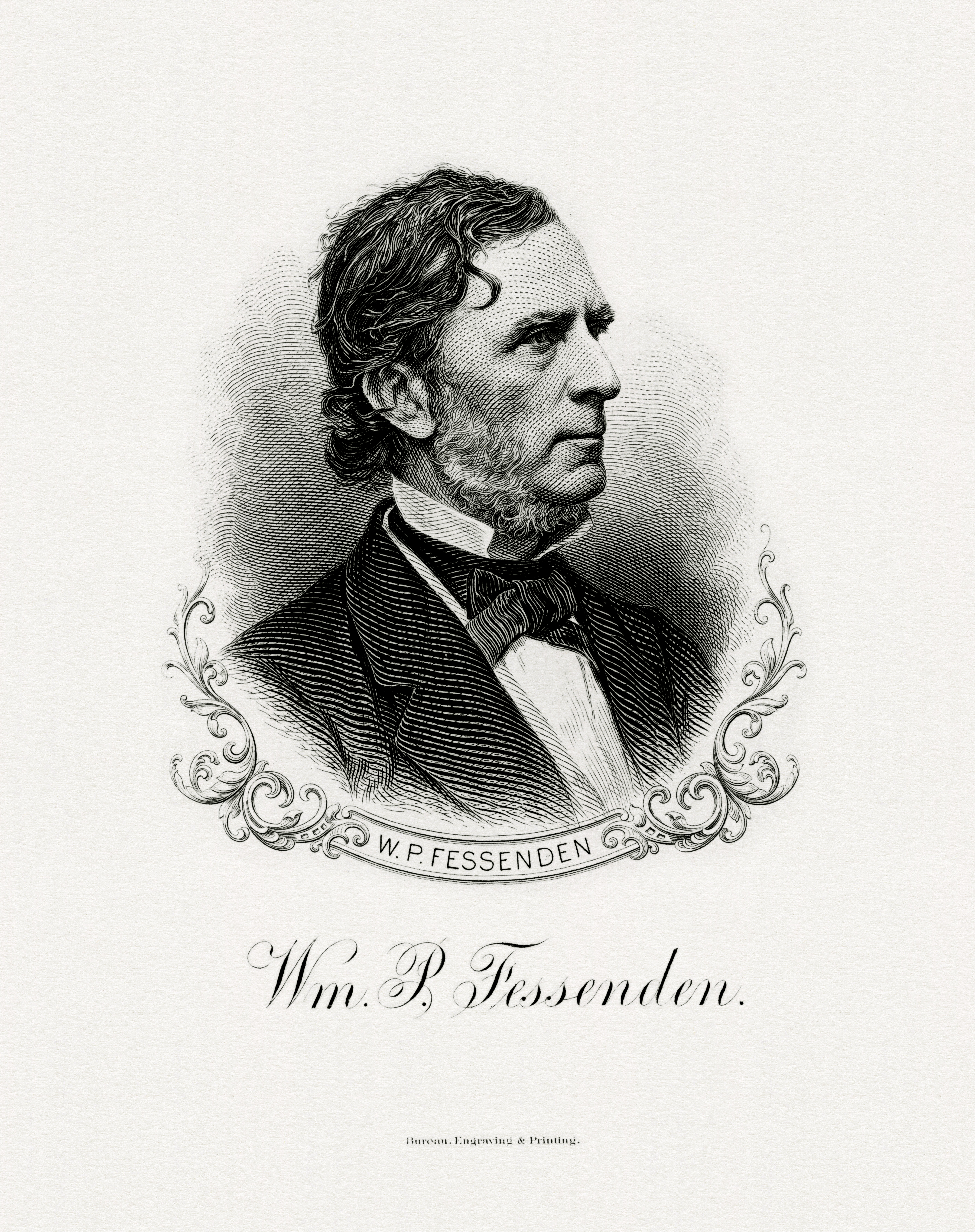 Engraved BEP portrait of U.S. Secretary of the Treasury William P. Fessenden